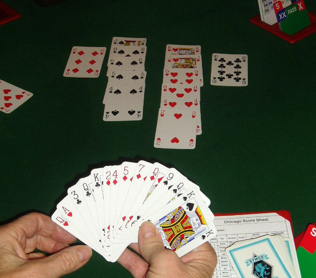 The photographer, Mr Alan Blackburn, has passed this photograph to me for uploading to Wikipedia.